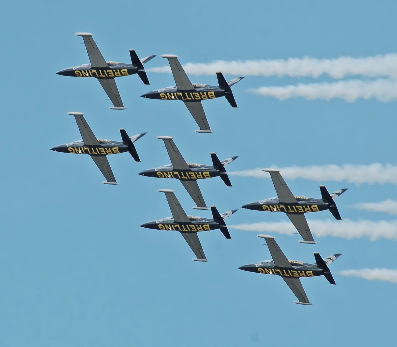 Aero L-39 Albatros aircraft of the Breitling Jet Team practice over Fairford, England, on Thursday July 10th 2014, for the Royal International Air Tattoo of Saturday and Sunday July 12th and 13th 2014. The aircraft is a 2-seater Czech-made military training jet, now out of production. (Note that Albatros has only one letter 's' in the aircraft name, I have not misspelt it!).